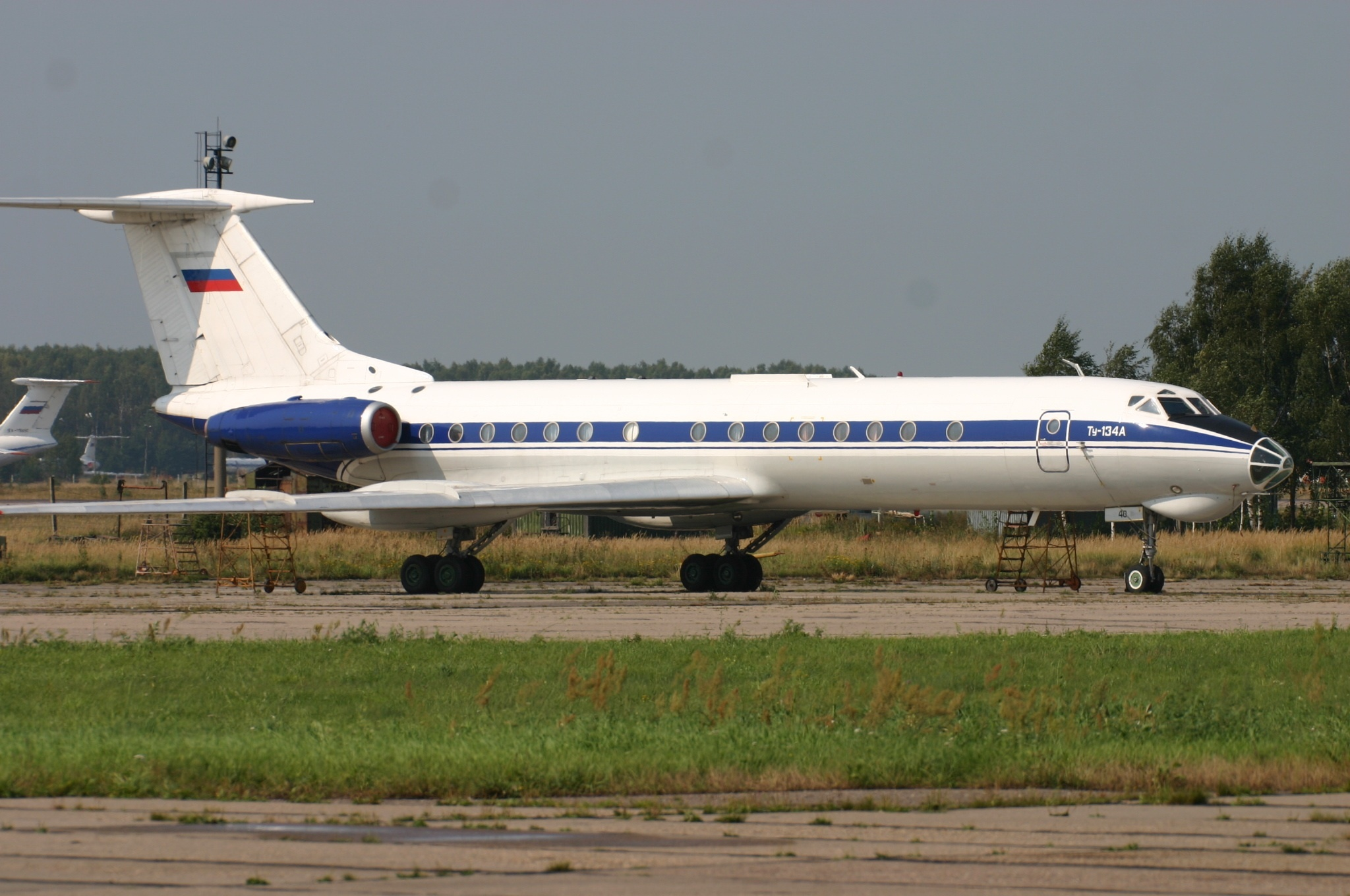 At Chkalovskaya